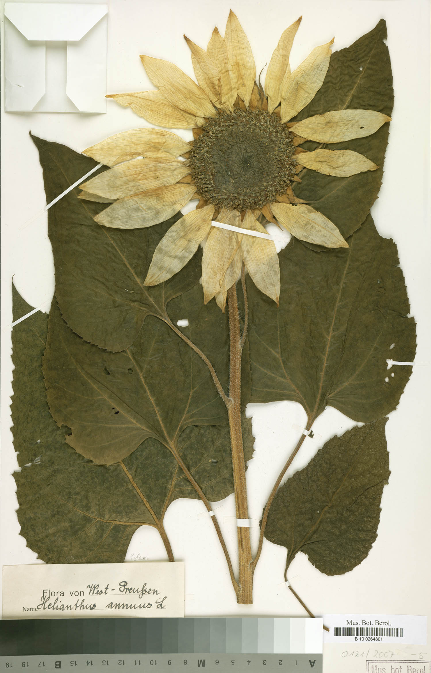 Example scan of Herbar Digital research project